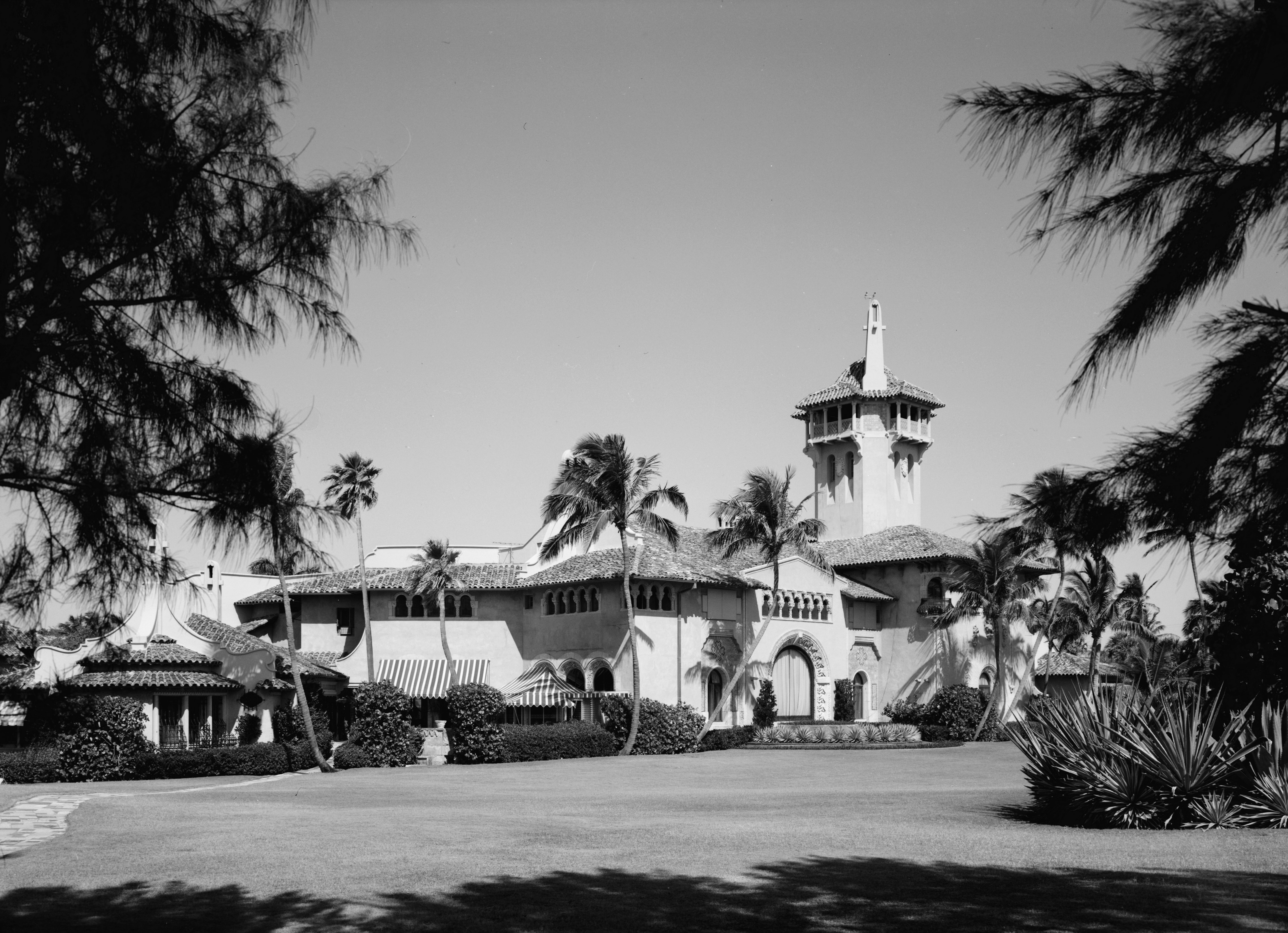 Mar-A-Lago — the Florida estate of Marjorie Merriwether Post, designed by Joseph Urban. Image courtesy of federal HABS—Historic American Buildings Survey in Florida project.